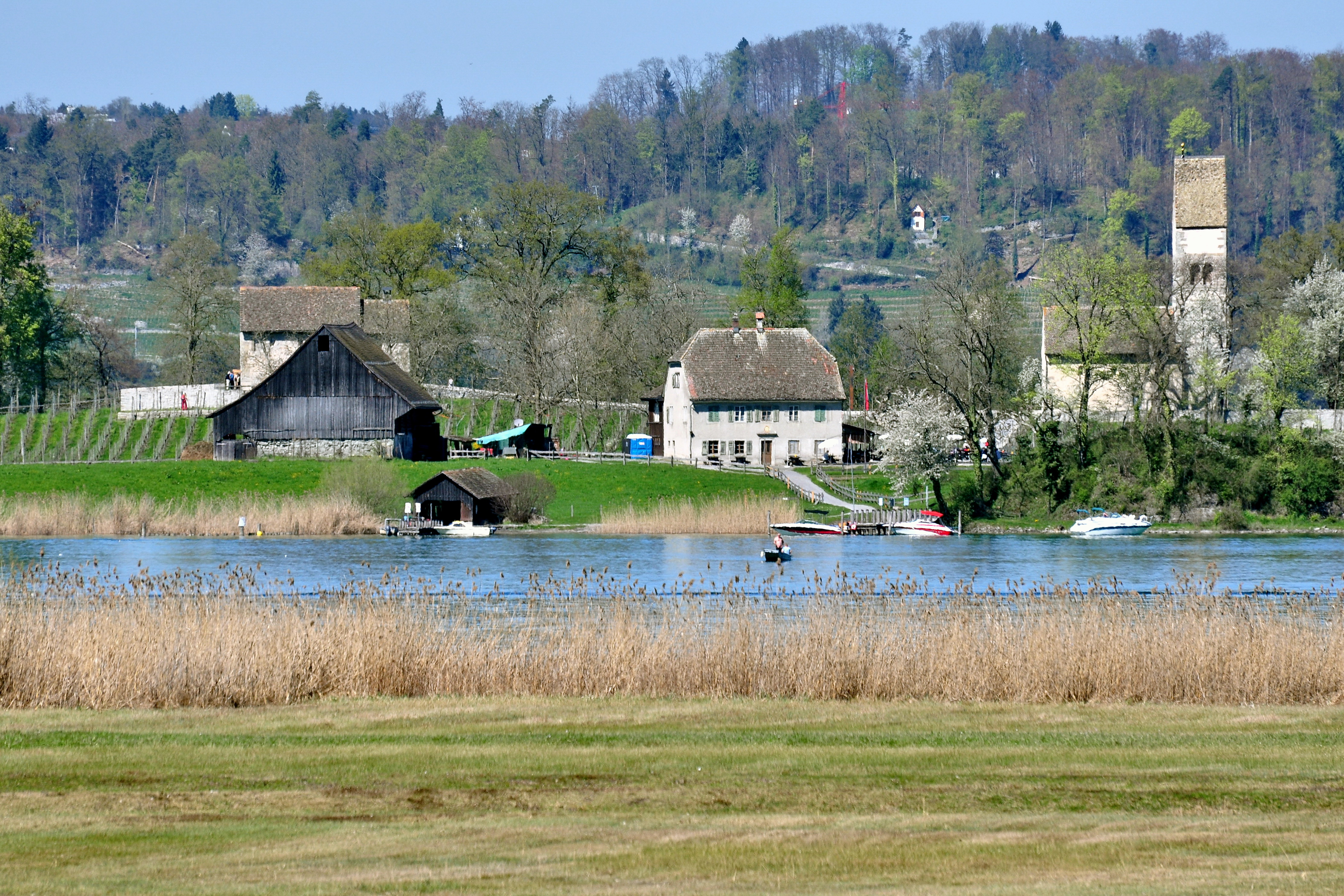 Frauenwinkel protected area on Zürichsee (Lake Zürich), as seen from nearby Seedamm, Ufenau island in the background.